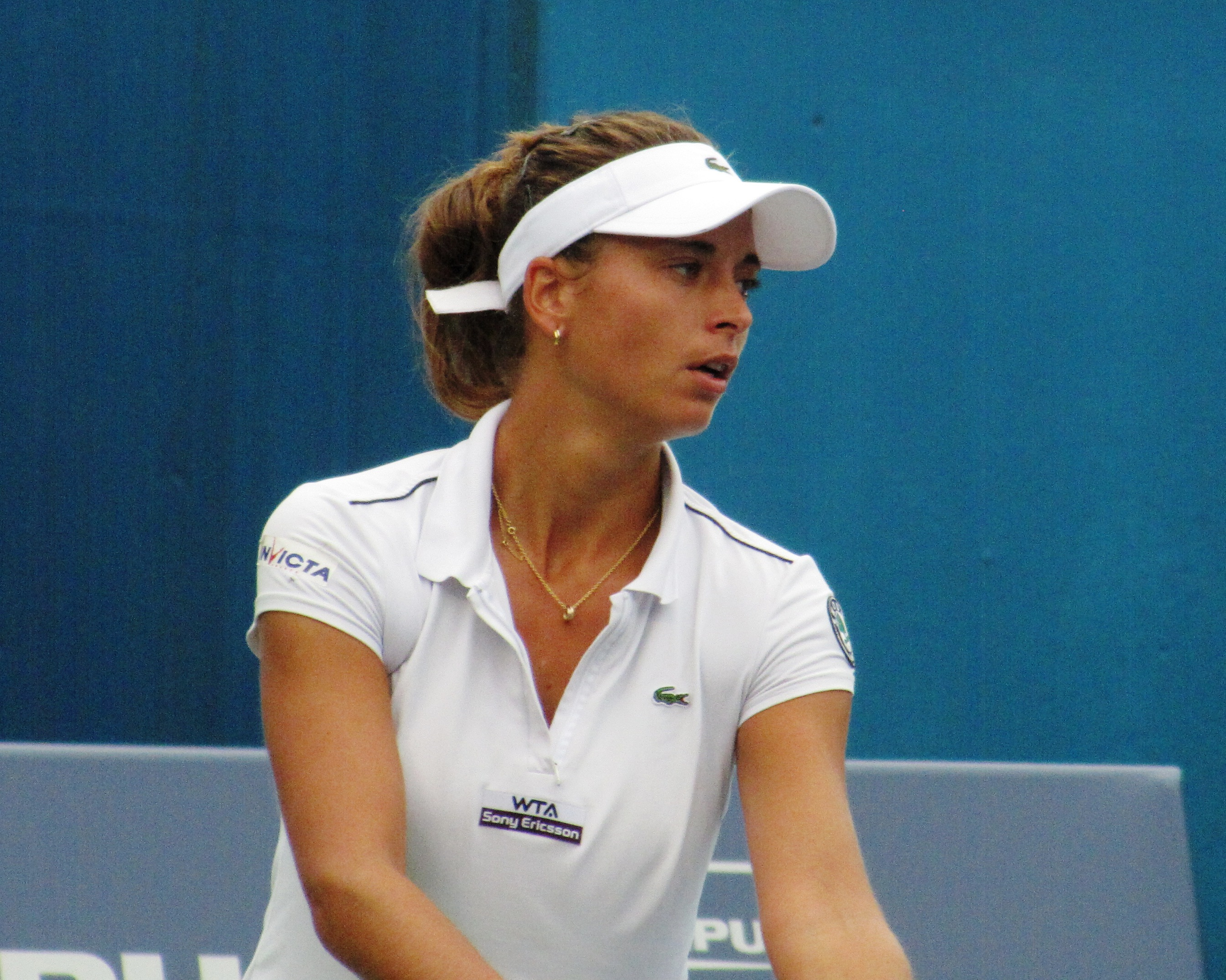 Petra Cetkovská serving at the semifinals of the New Haven Open, 27 August 2011. She won the semifinal match, but lost in the final.